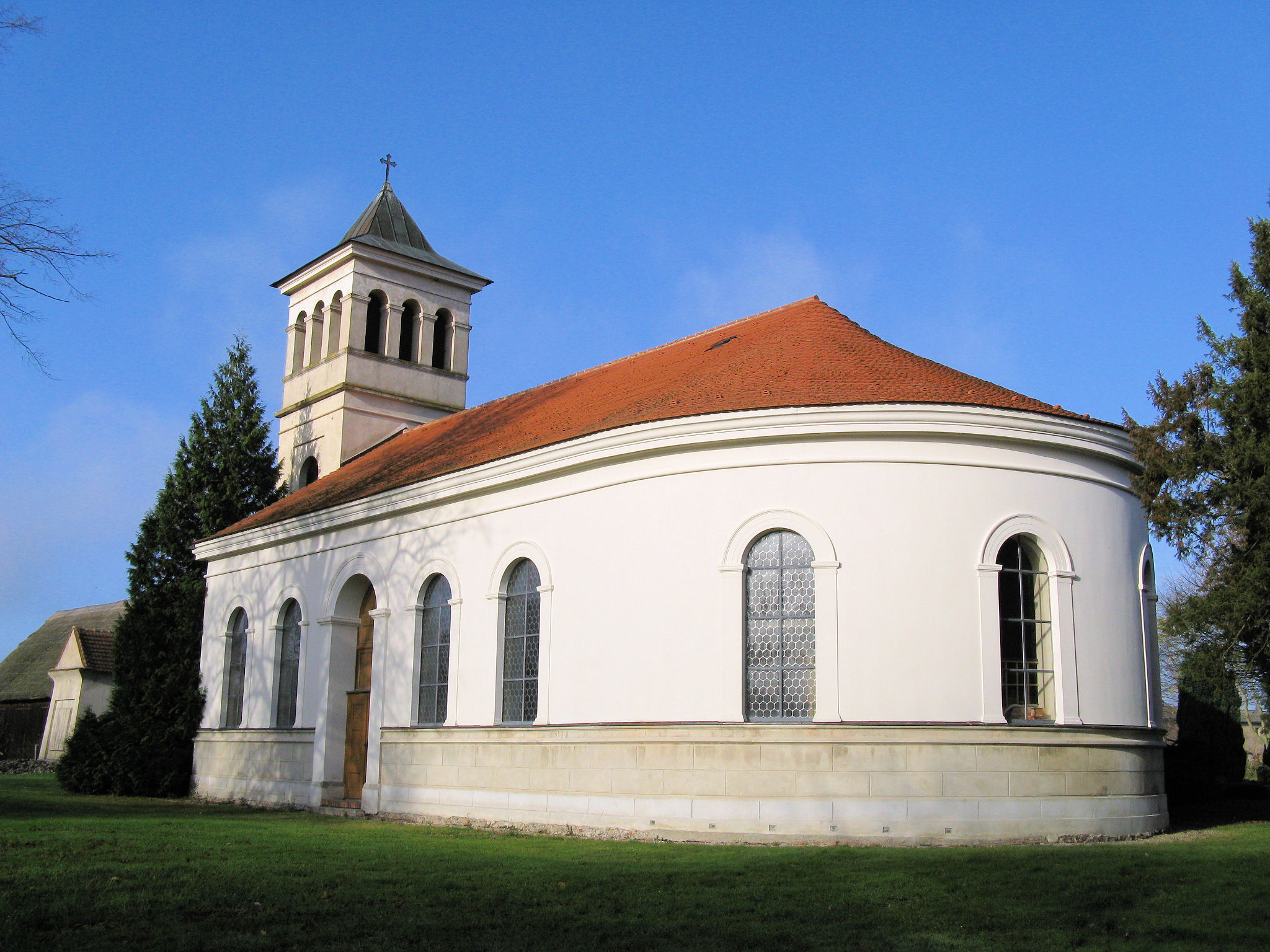 Church in Zickhusen, Mecklenburg-Vorpommern, Germany